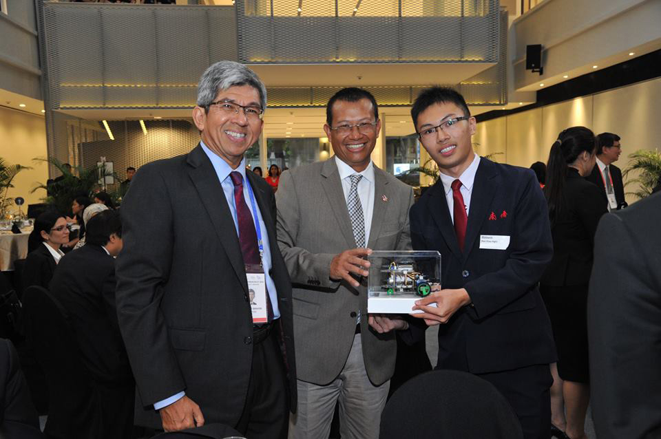 Student representative of Nan Chiau High presenting their Arduino Shieldbot creation to visiting Malaysian Minister of Communication and Multimedia, accompanied by Minister for Communications and Information Assoc. Prof. Dr Yaacob Ibrahim, during the imbX Ministerial Forum held on 16 June 2014.